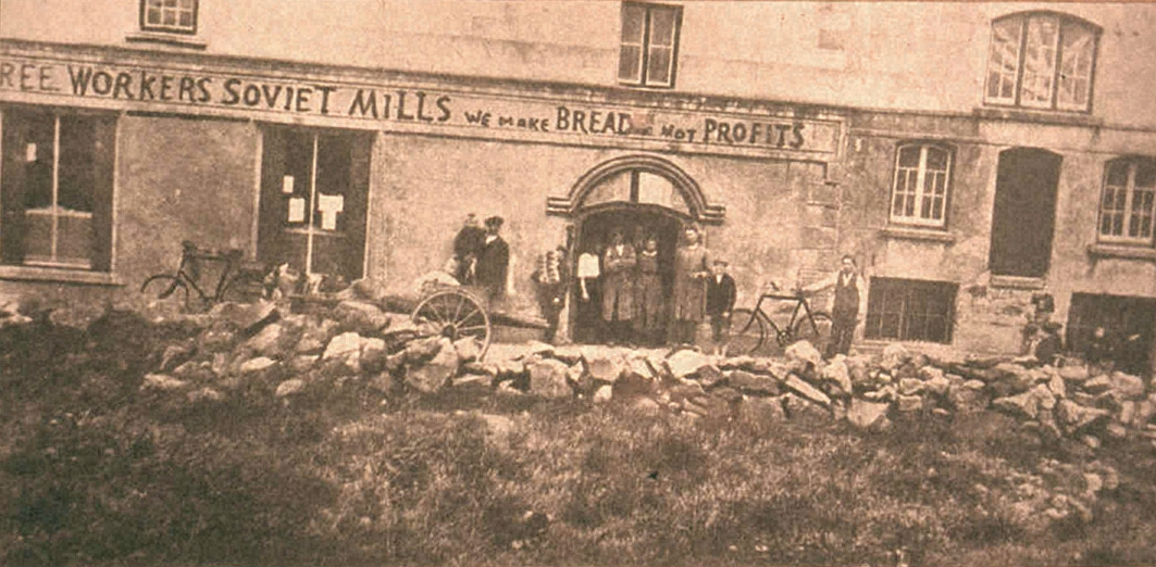 Photograph of Bruree Workers Soviet Mills, a self declared "soviet" in Bruree, County Limerick, declared August 26th 1921.